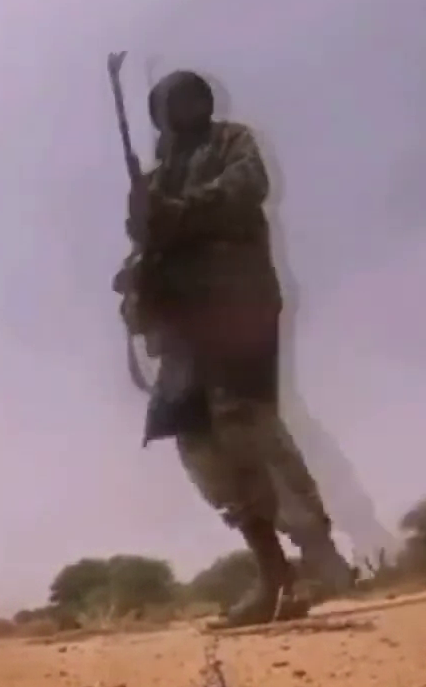 Islamic State in the Greater Sahara fighter during the Tongo-Tongo ambush. Screenshot from a video taken by a fallen US soldier.